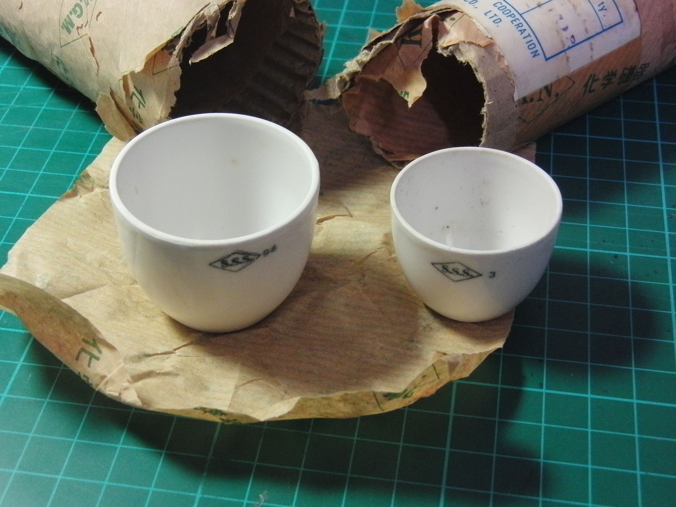 Crucibles